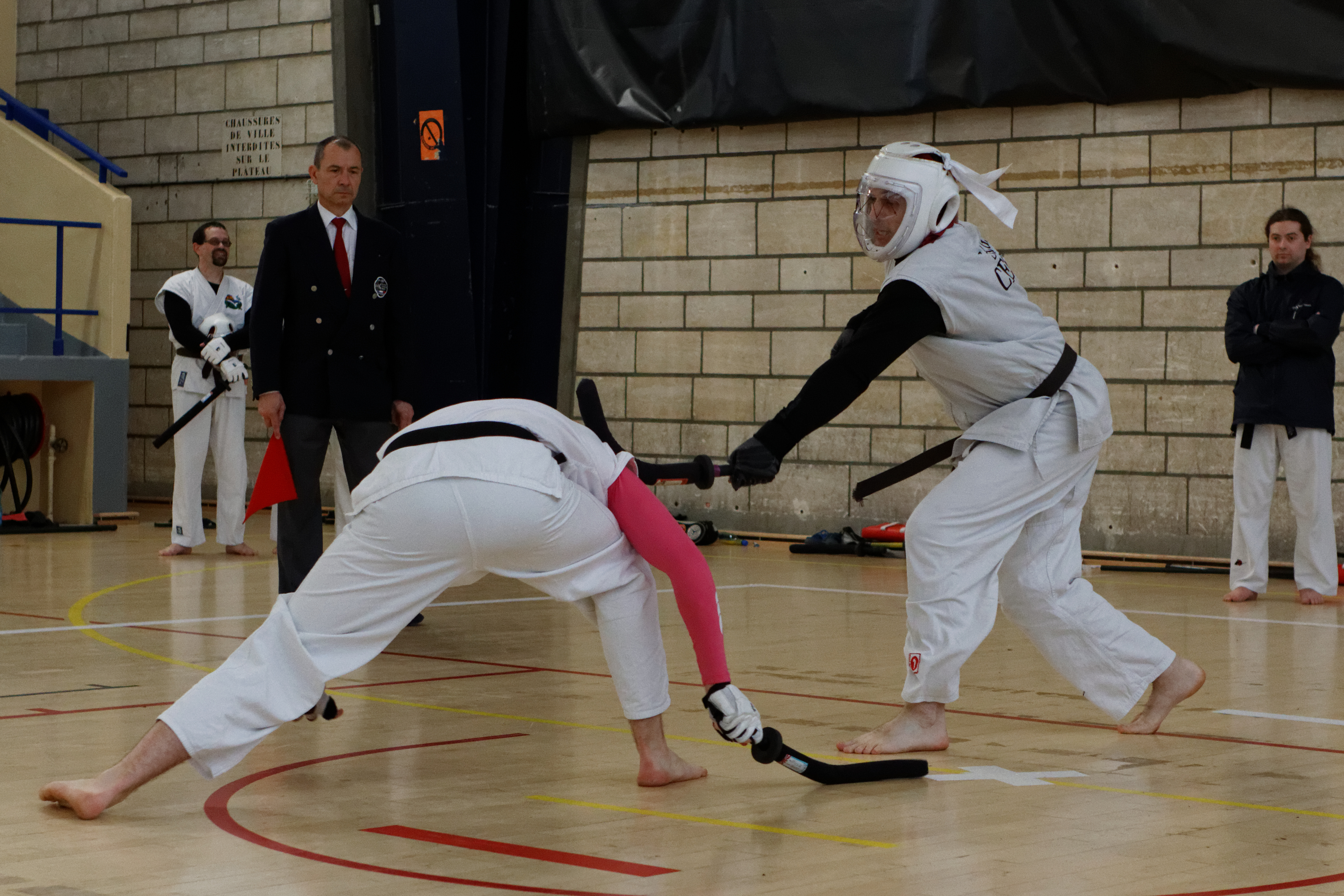 French Chanbara Championship, 12 April 2015.